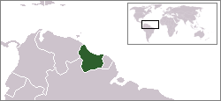 Map of Netherland Guiana.